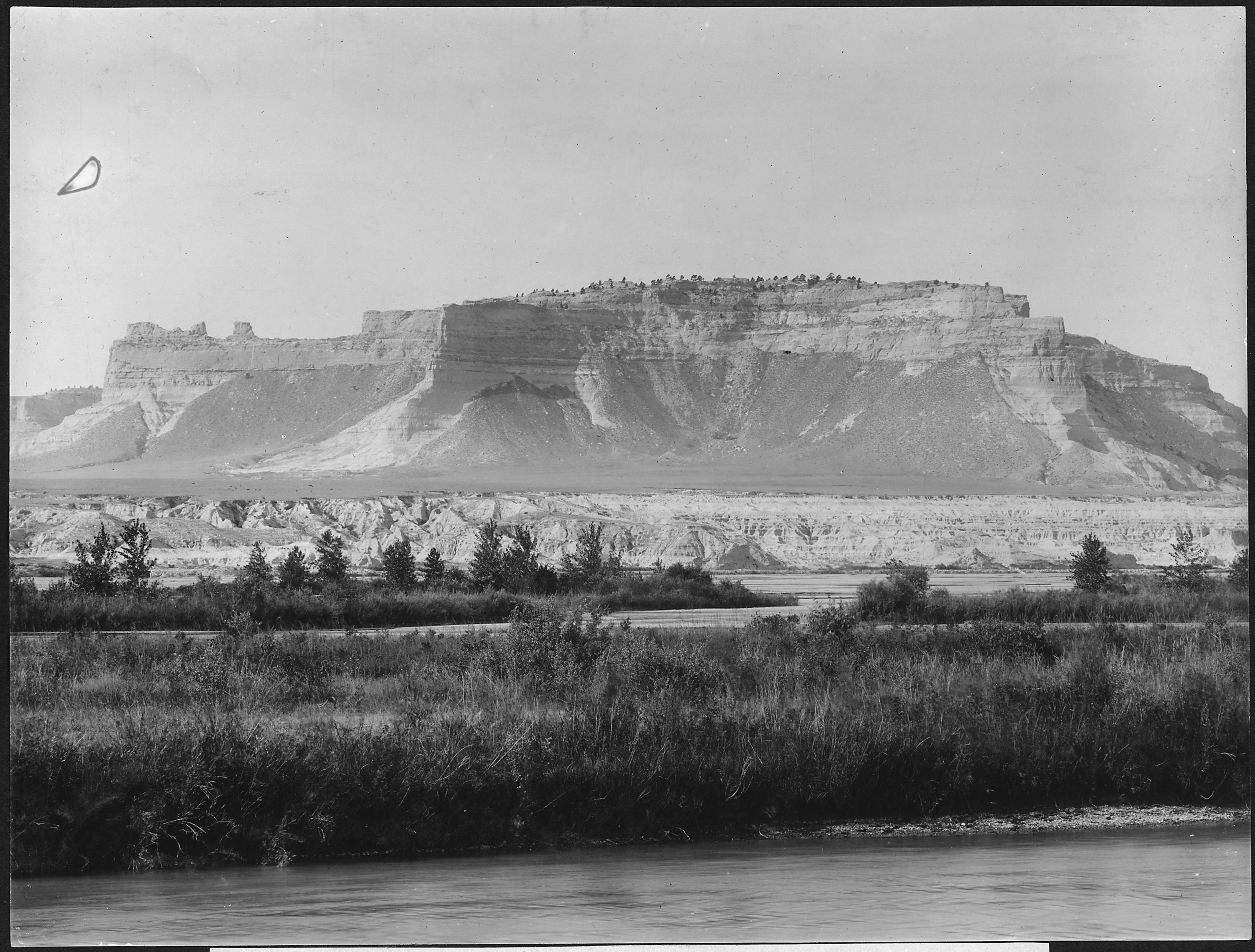 Scope and content: Photograph from Volume One of a series of photo albums documenting the construction of Pathfinder Dam and other units on the North Platte Project in Wyoming and Nebraska.